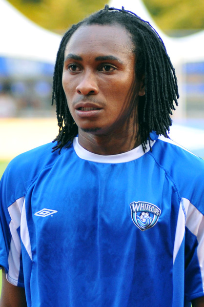 Photo of soccer player, Nizar Khalfan. Wilson Wong photo.